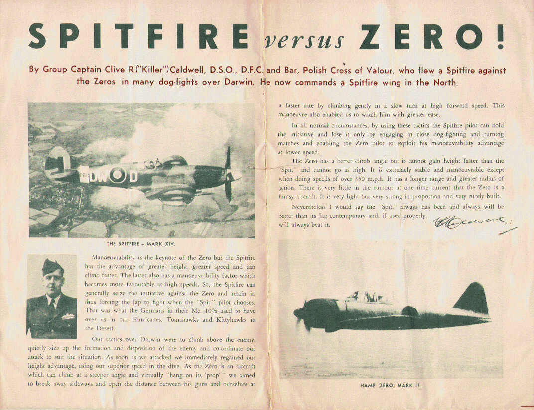 A topic on comparison between Spitfire and Zero (called Zeke or Hamp)